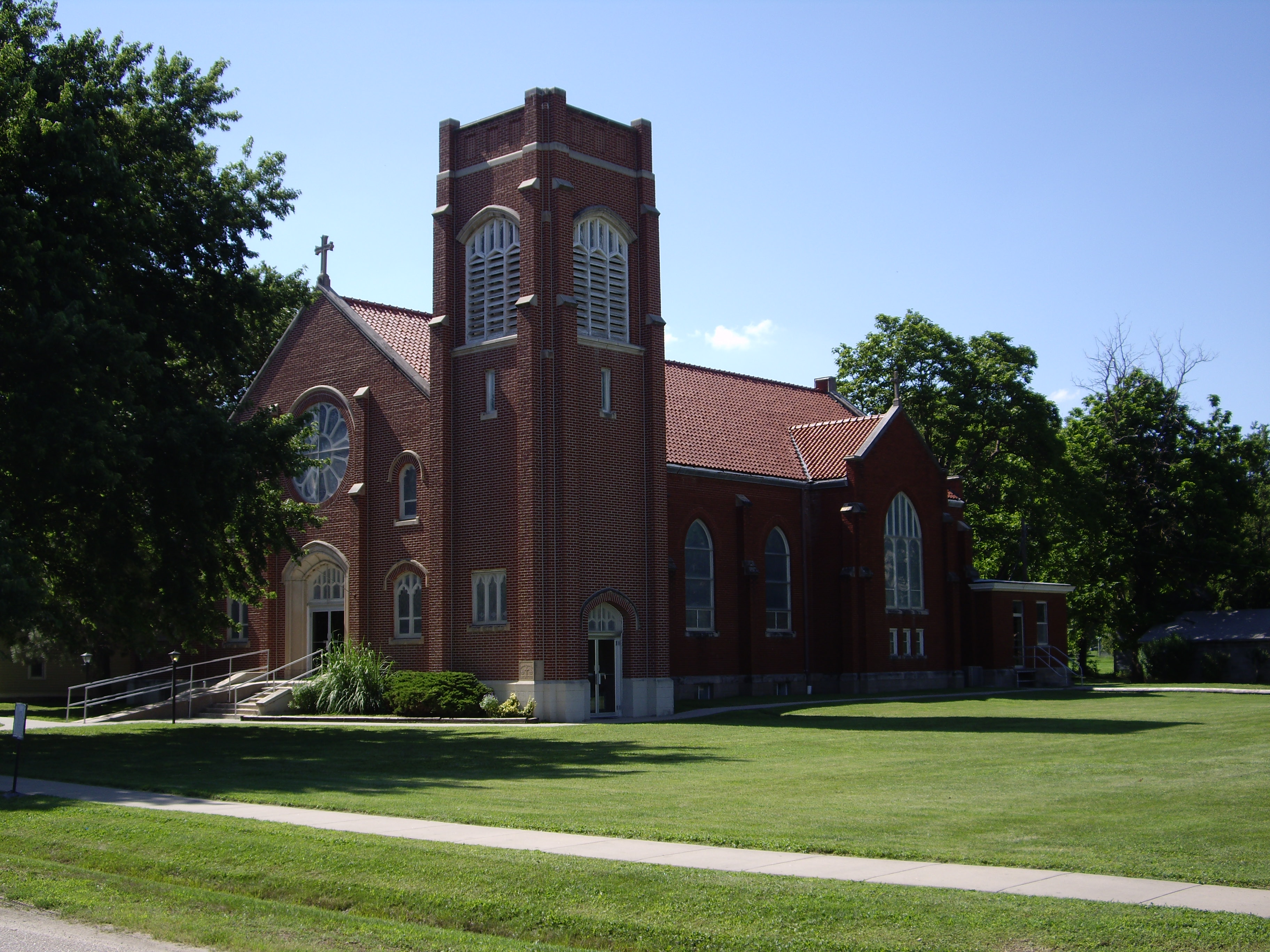 St Patrick Catholic Church, 815 Marion St, Florence, Kansas, 66851, USA. Looking northwest. Photo by Steve Meirowsky on July 10, 2010.